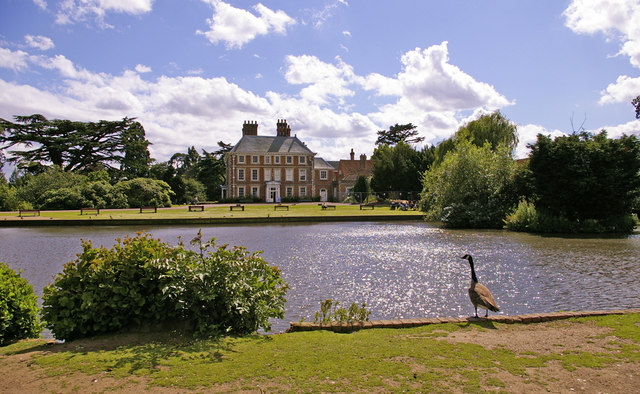 Forty Hall with Lake, Enfield Looking across the lake to the Hall with Canada Goose on the shore.